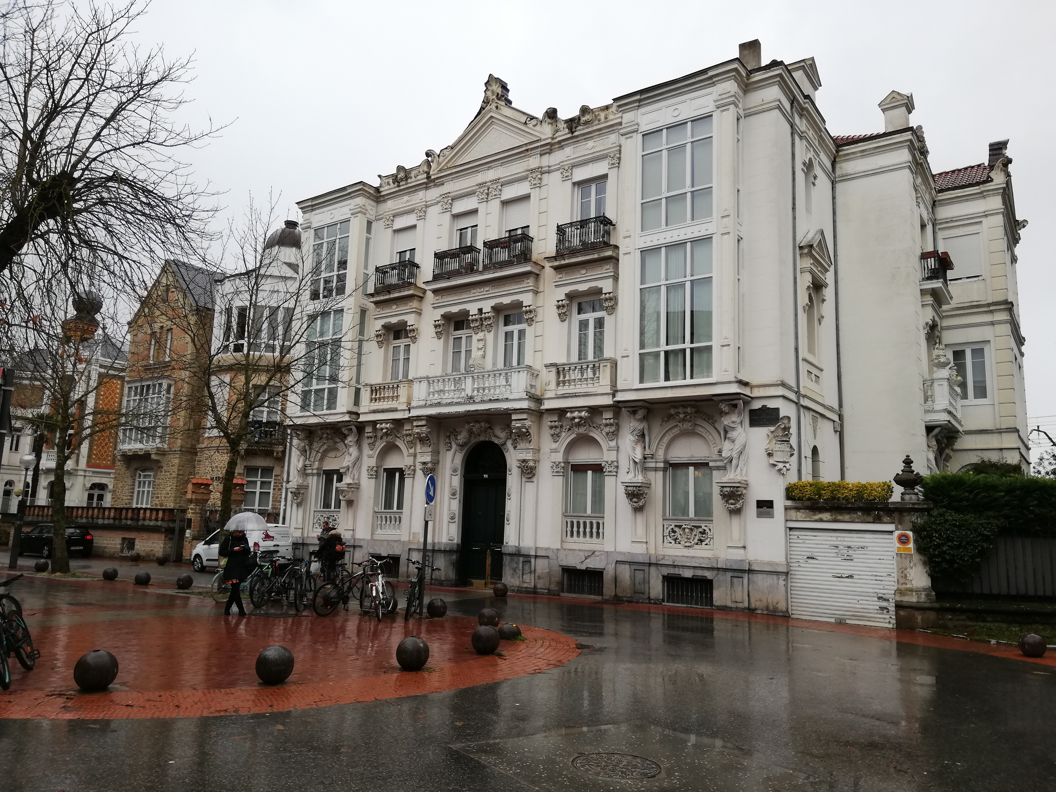 In this house the writer was born.